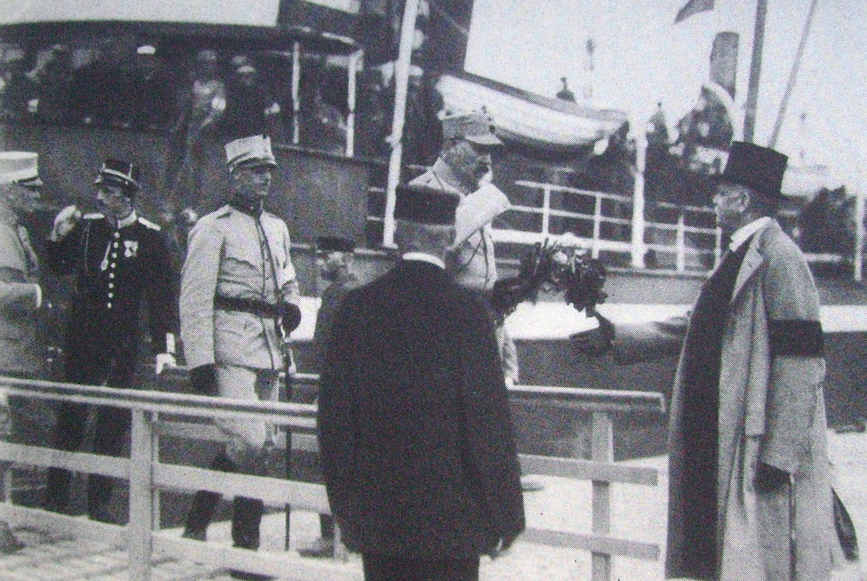 Picture of Harald Hjalmarson and Sven Palme in Stockholm